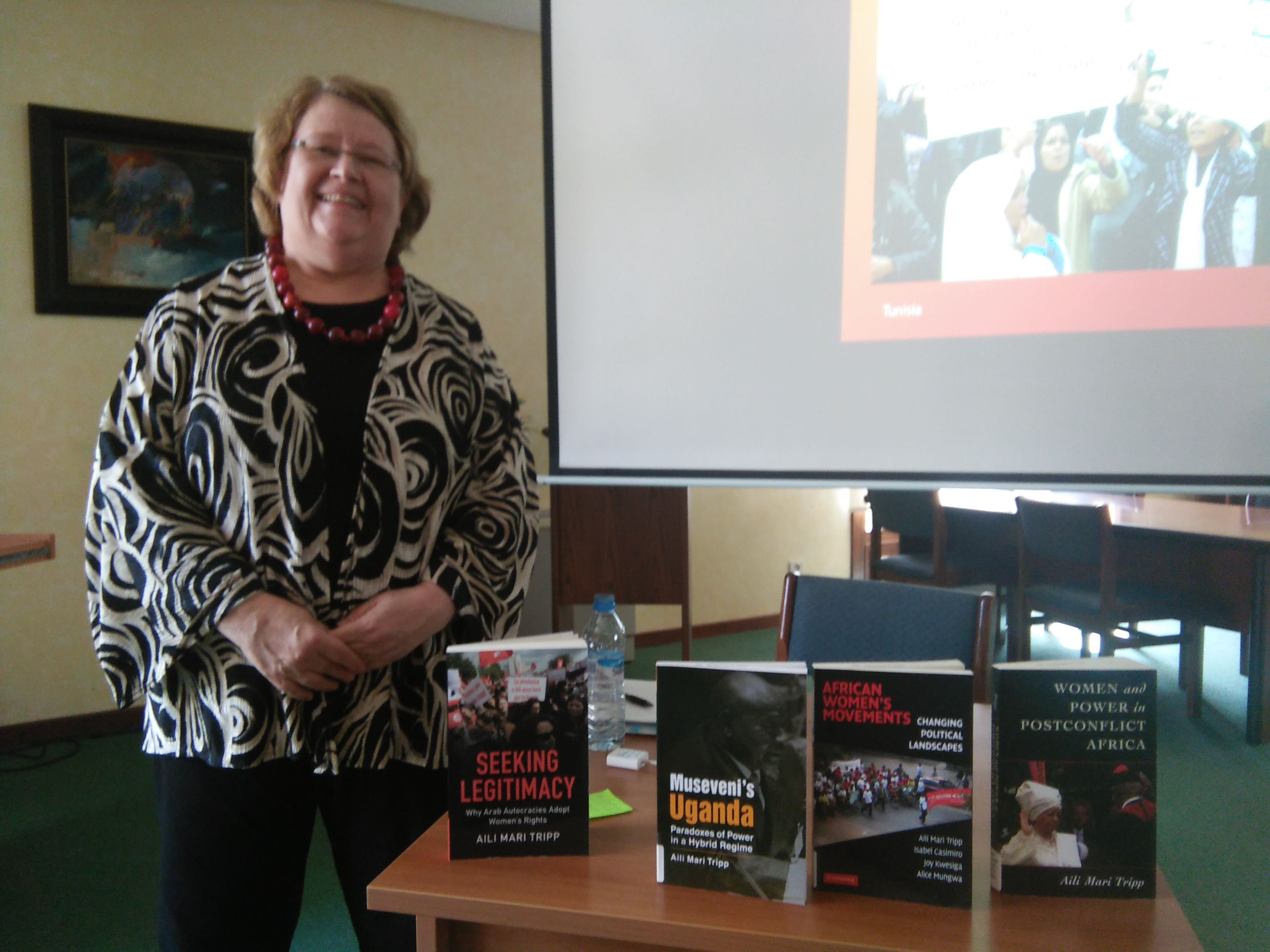 Aili Mari Tripp with her books in 2019